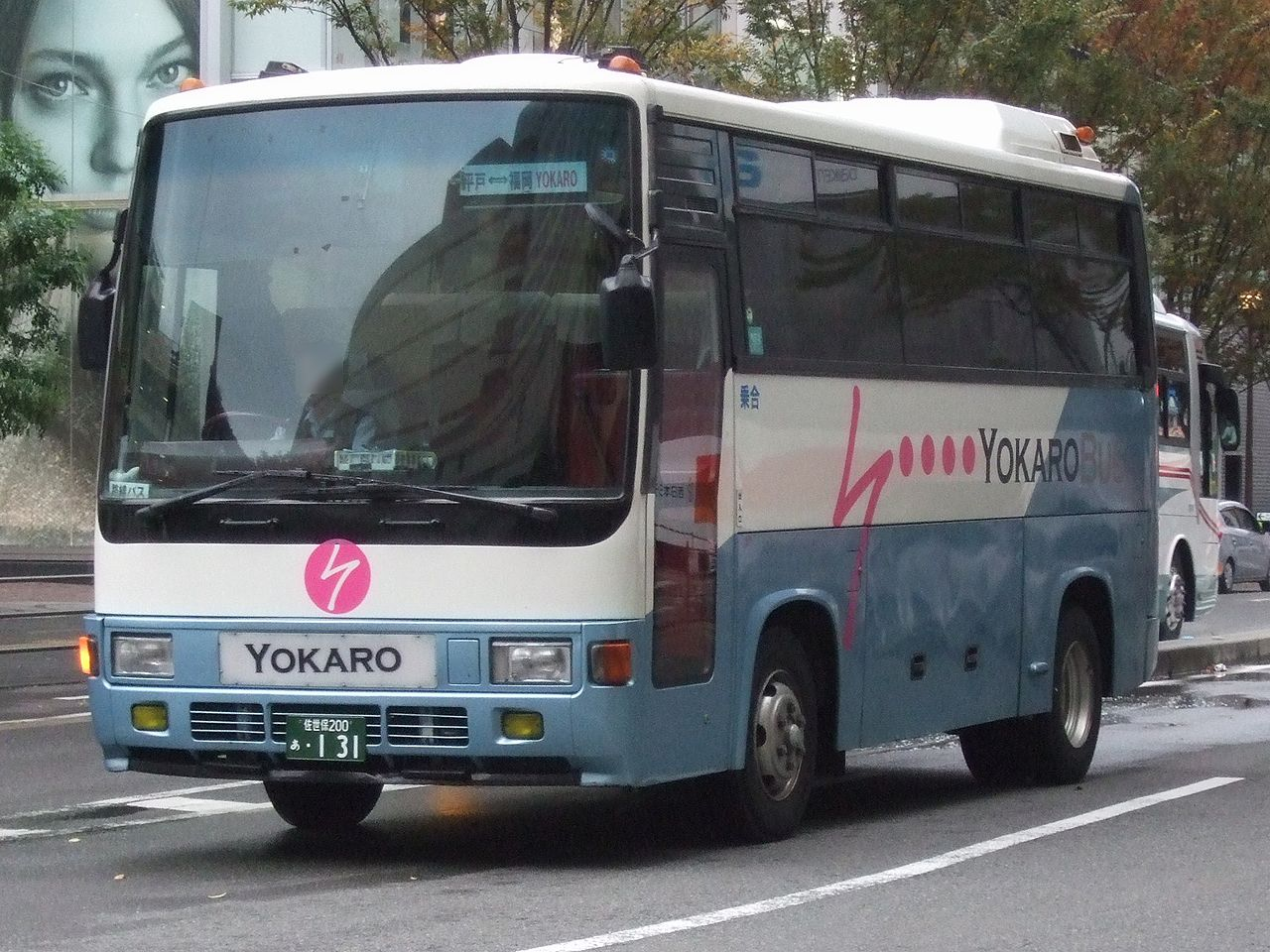 Company:Yokaro Use:transit bus (highway bus) Car license:NSS 200 A 131 Chassis manufacturer:Hino Motors Type:Hino Rainbow 7M Coachbuilder:Hino Body Location:in Hakata Ward, Fukuoka City, Fukuoka, Japan.